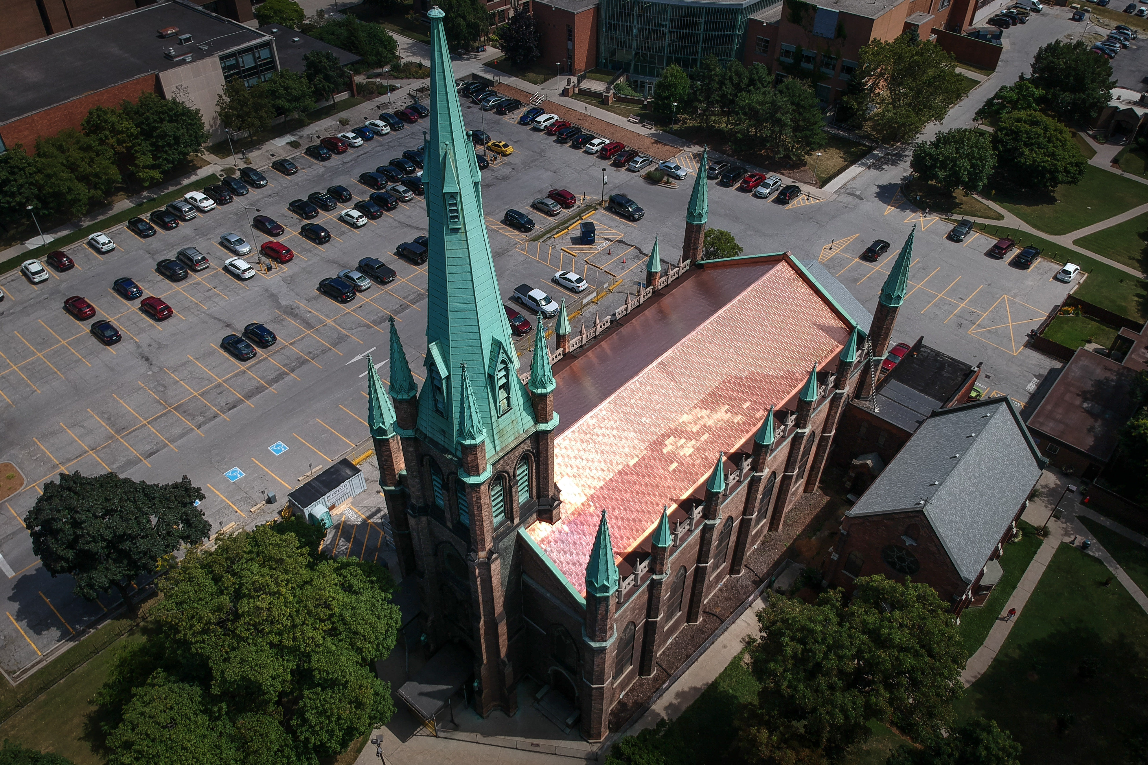 Our Lady of the Assumption Church (exterior aerial), Windsor, Ontario, August 2019